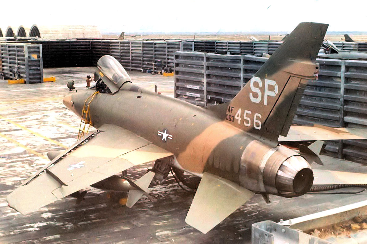 355th Tactical Fighter Squadron North American F-100D-85-NH Super Sabre 56-3456 Tuy Hoa AB RVN 1969 Aircraft eventually sold to Turkish Air Force